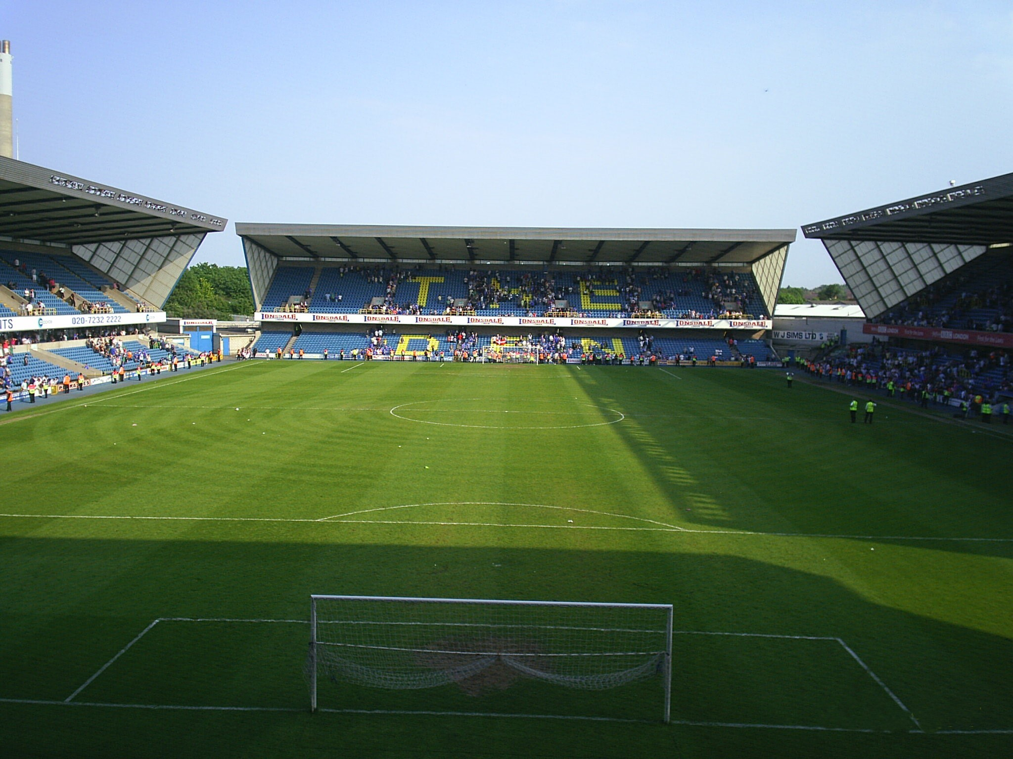 The new den stadium post match in April 07. Own work